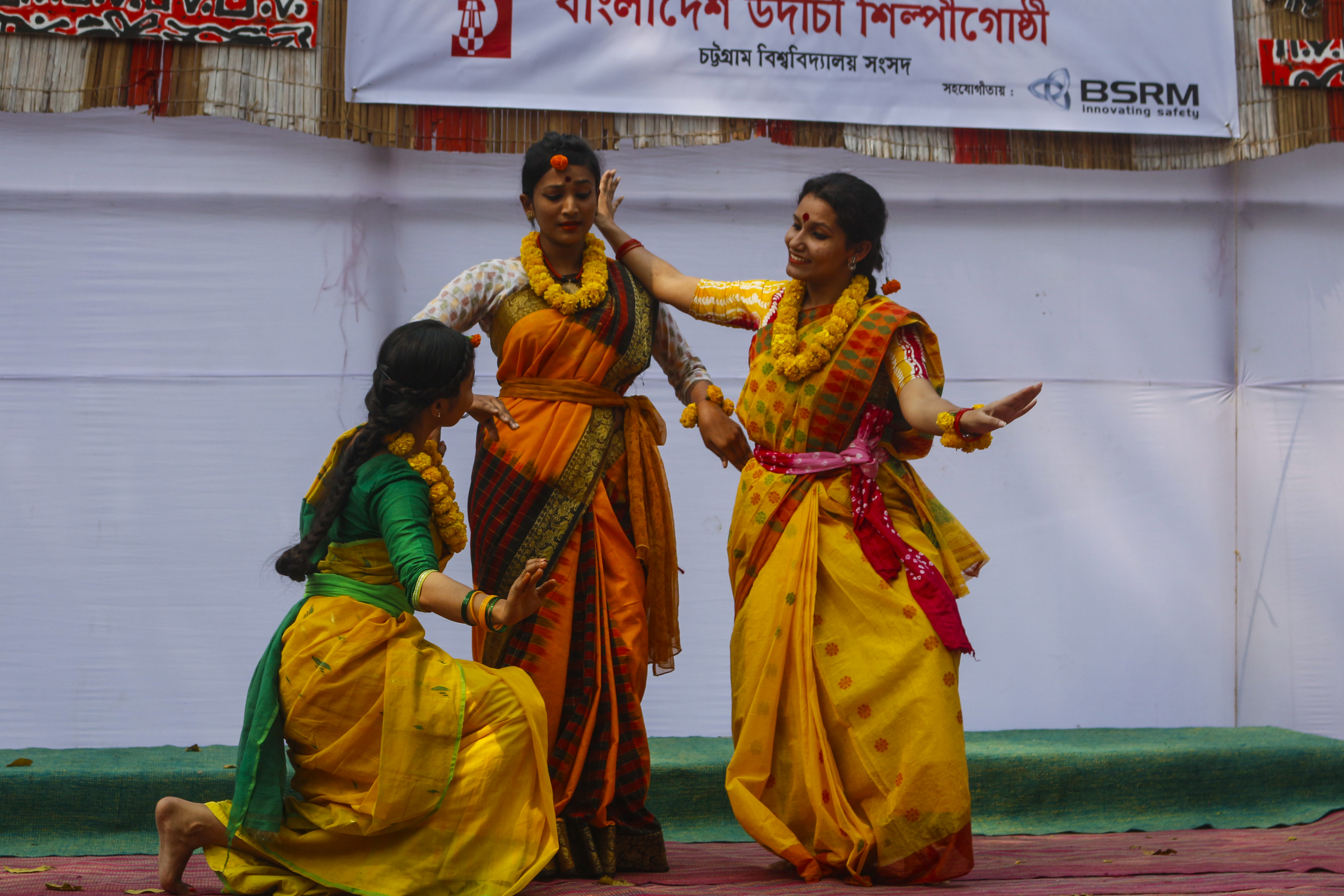 Bangladesh Udichi Shilpigoshthi - Chittagong University Sangsad celebrating Pohela Falgun 1423 at CU Muktomoncho